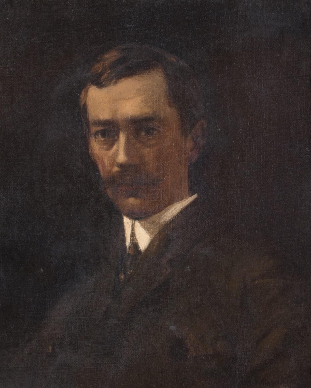 Muirhead, David; Leonard Doncaster; Department of Zoology, University of Cambridge